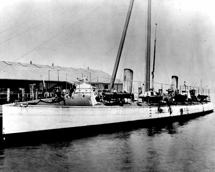 Photo of USS Foote